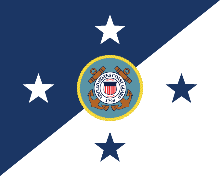 U.S. Coast Guard Flag of Commandant Websafe Colors